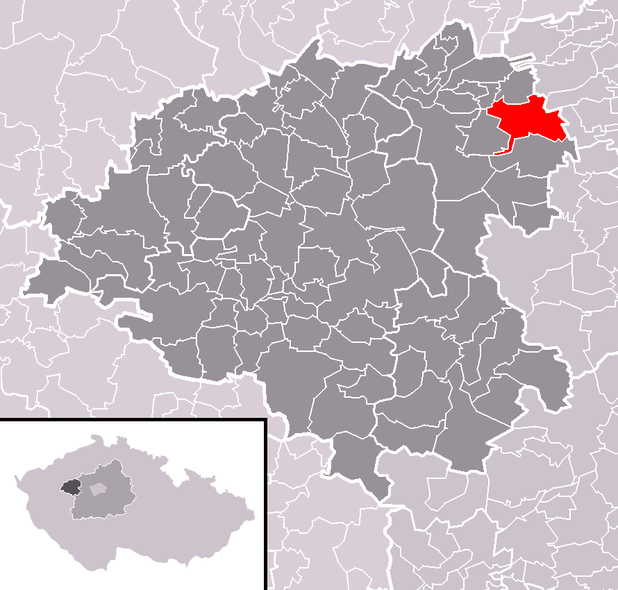 Location of Mšec municipality within Rakovník District and (identical) administrative area of Rakovník as a Municipality with Extended Competence.